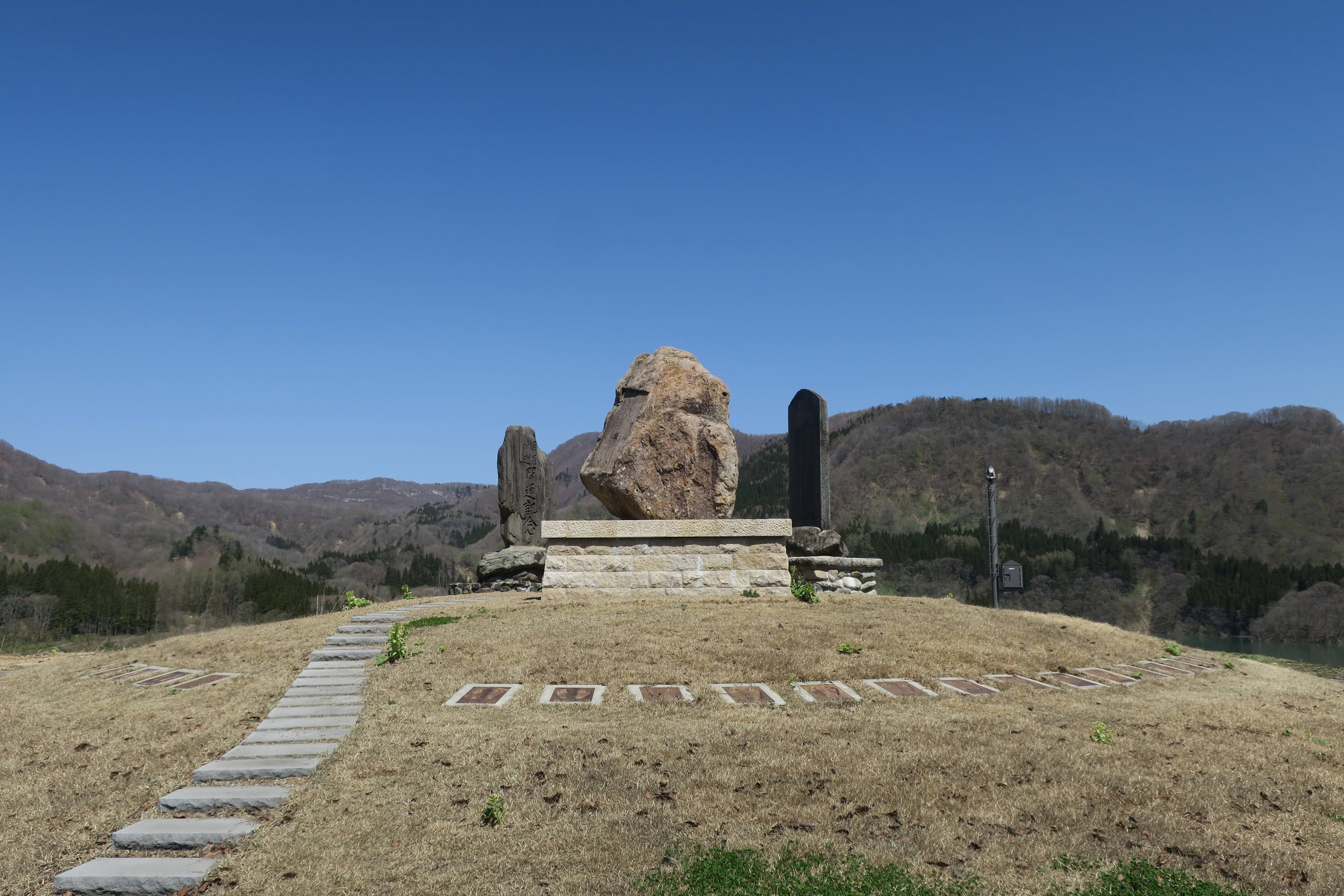 Tsugaru Dam (Nishimeya, Aomori).